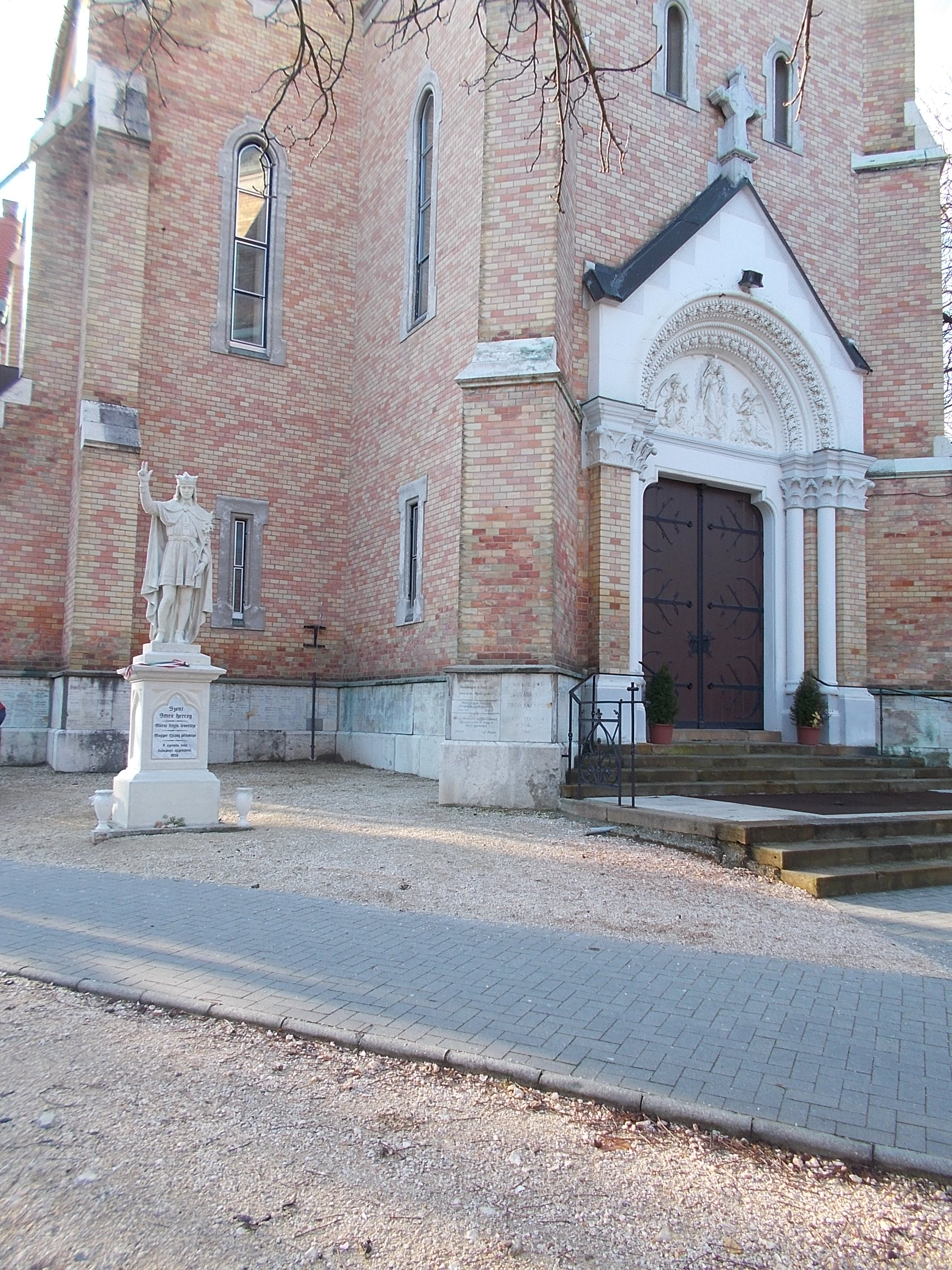 Saint Emeric of Hungary by Lajos Krasznai (1930, artificial? stone statue) and the main entrance of the Church of the Nativity of the Virgin Mary, Máriaremete pilgrimage site, Máriaremete neighbourhood, Budapest District II.